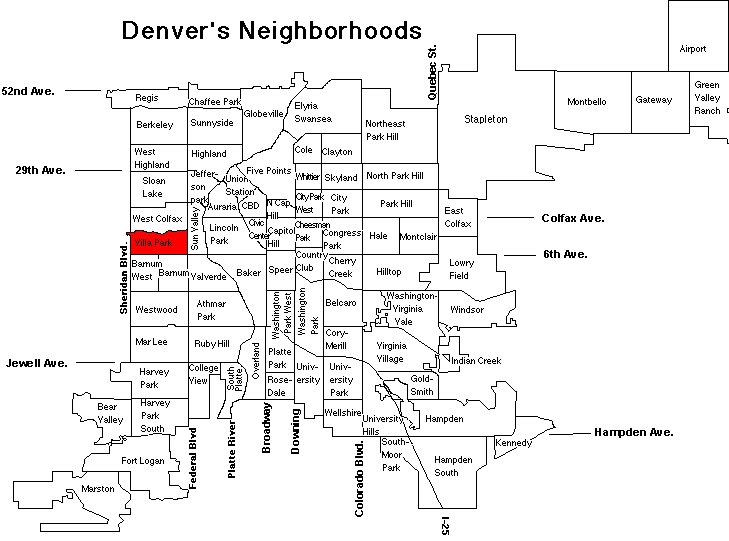 Highlighted map of Denver's Villa Park neighborhood created using Graphic Convertor.